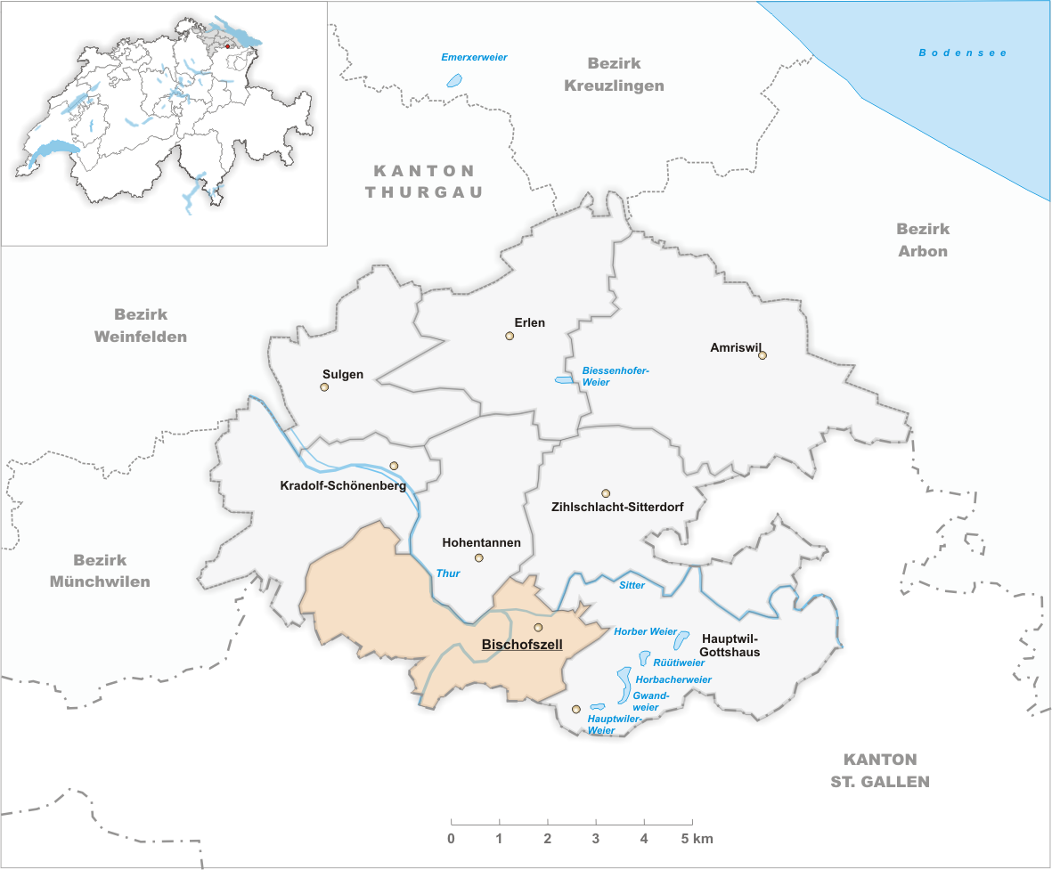 Municipality Bischofszell